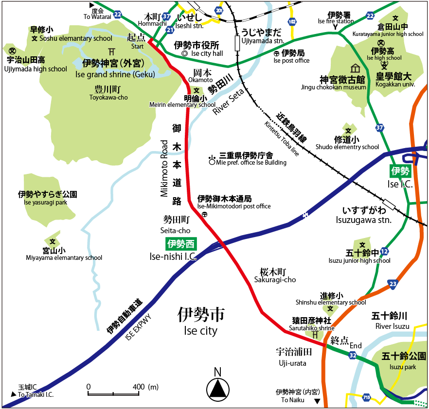 This is a map of Mikimoto Road in 2012. Mikimoto Road connects Hommachi, Ise and Ujiurata, Ise. It is a part of Mie prefectural road No.32 Ise-Isobe line.